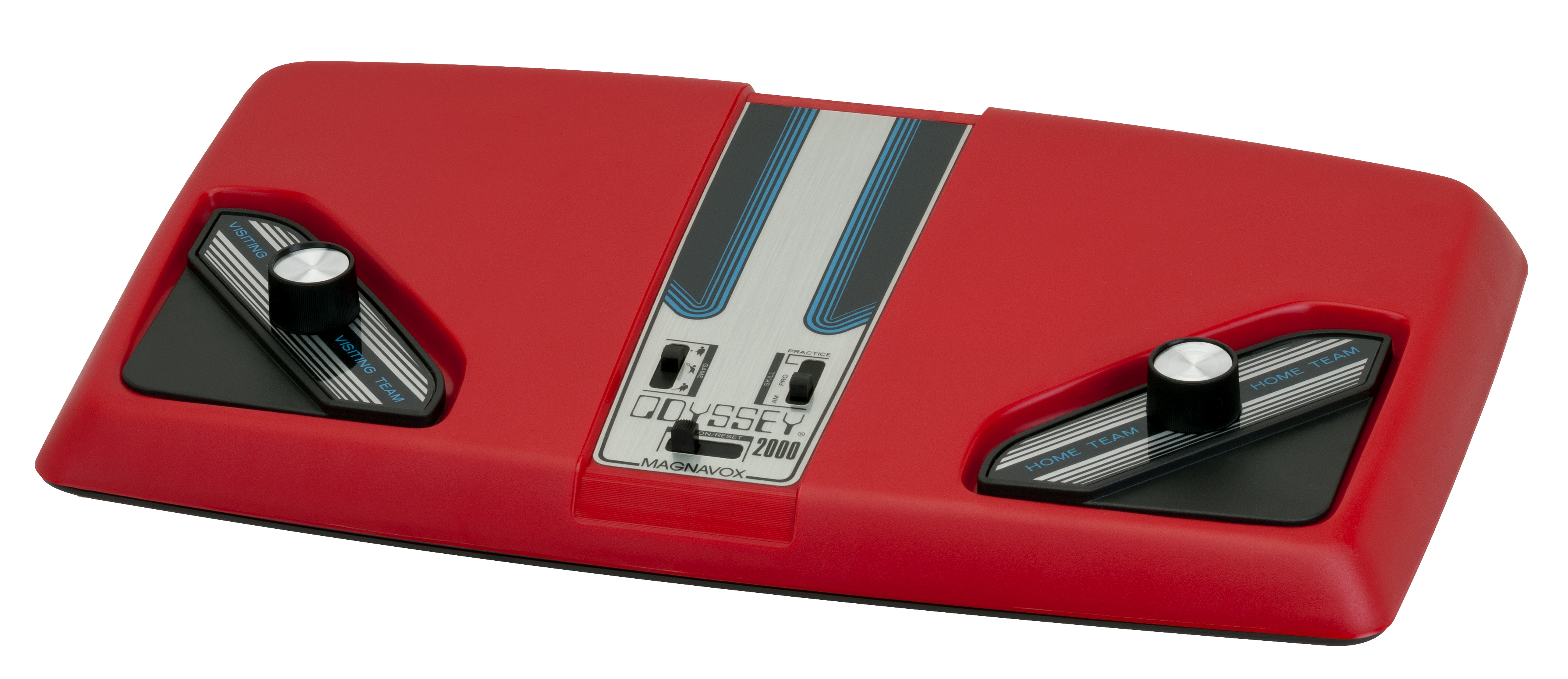 The Magnavox Odyssey 2000, a 1977 dedicated PONG-style game machine.